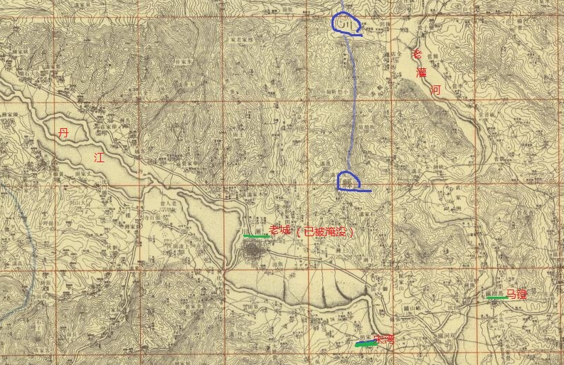 xichuan